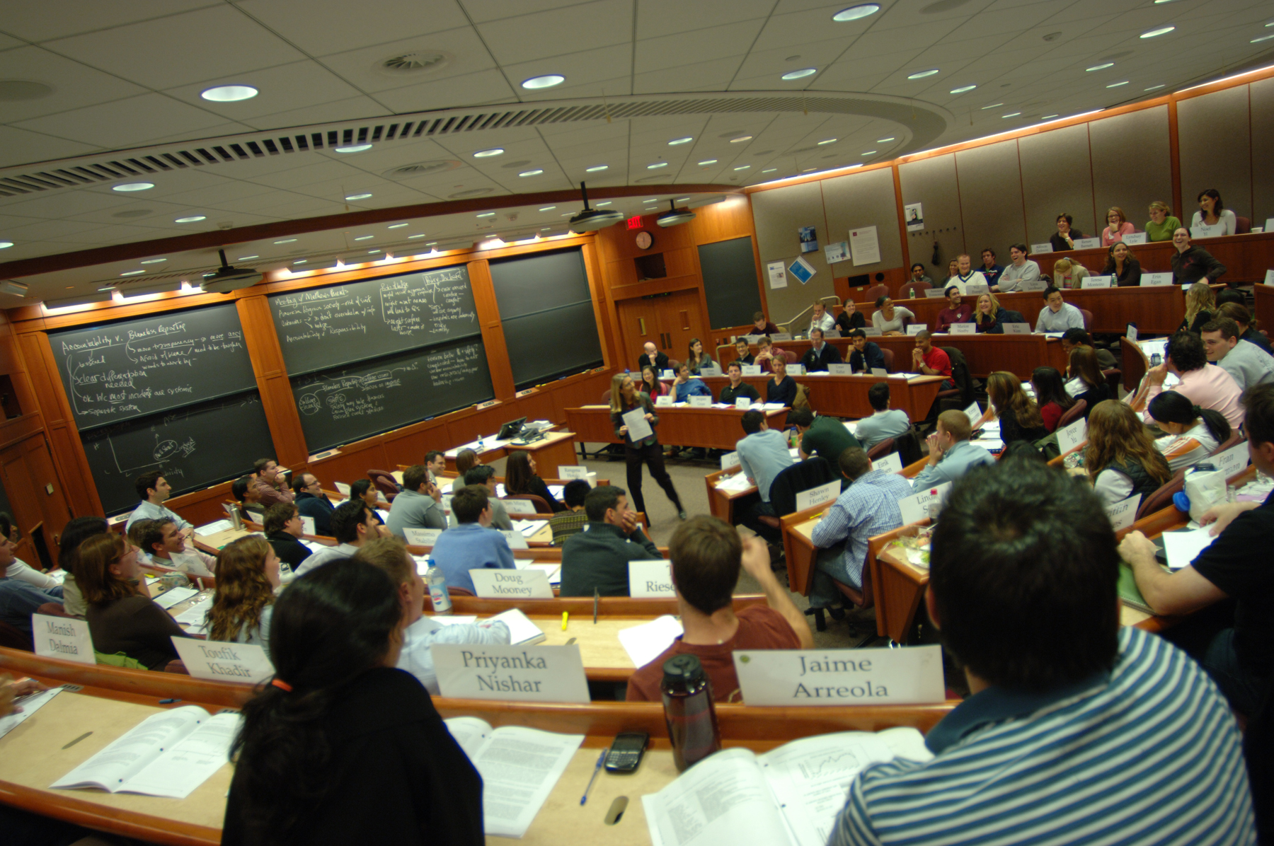 Inside a Harvard Business School classroom